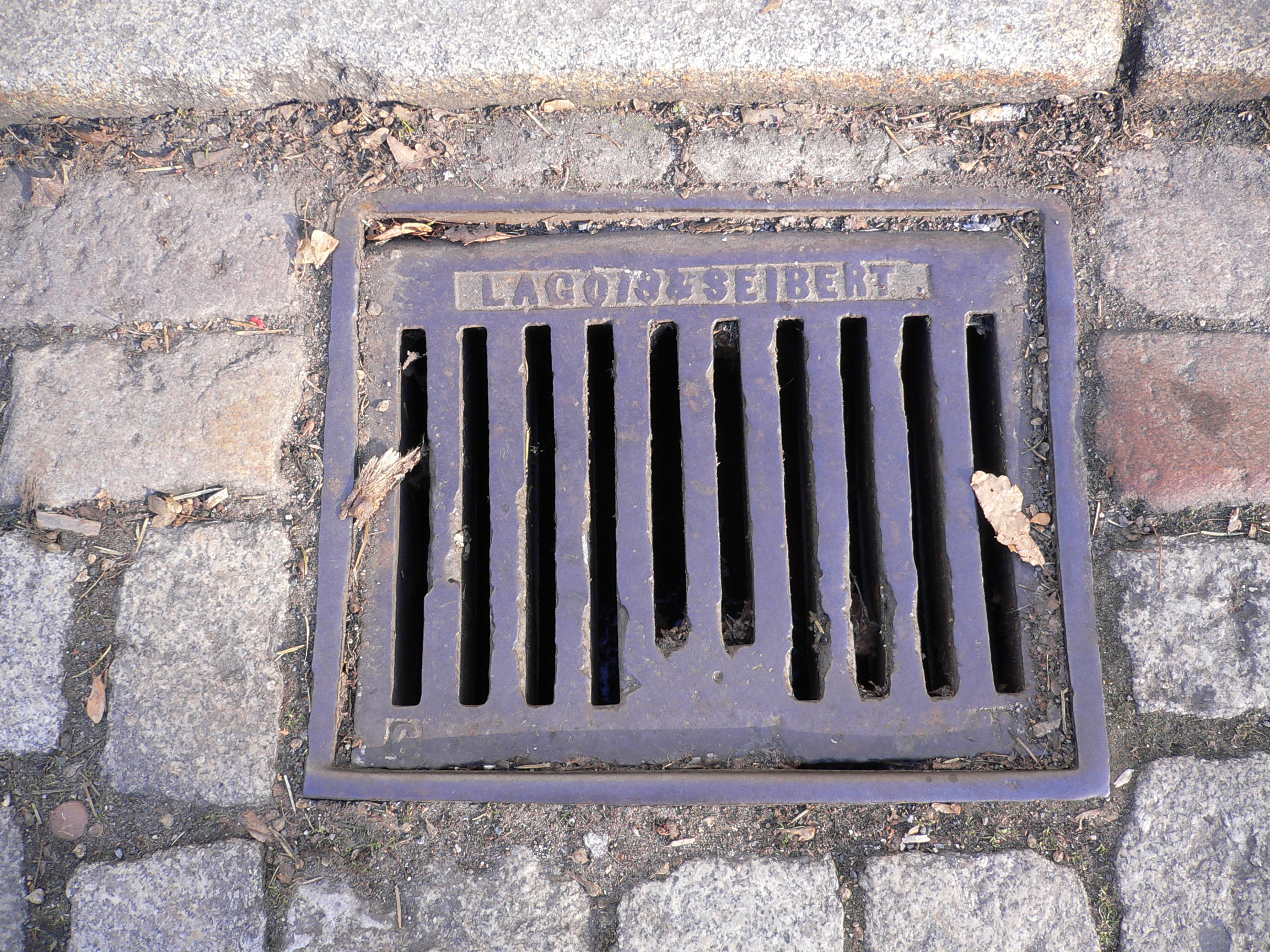 Berlin, Kreuzberg, Paul-Lincke-Ufer (which doesn't really matter here :-), – Gullydeckel, Lagois & Seibert (?) / street drain cover, Lagois & Seibert (?)